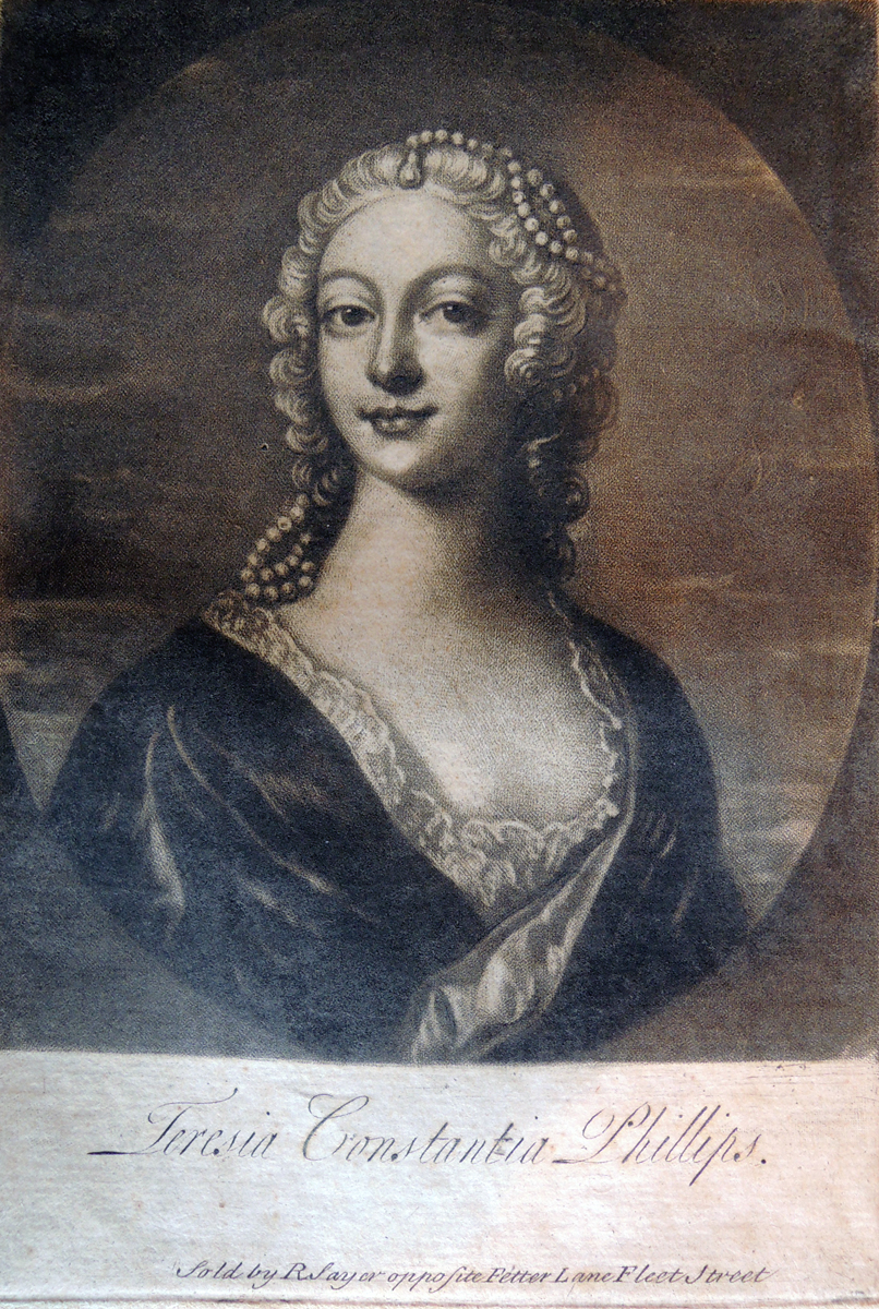 Teresia Constantia Phillips after Joseph Highmore end of the 18th century